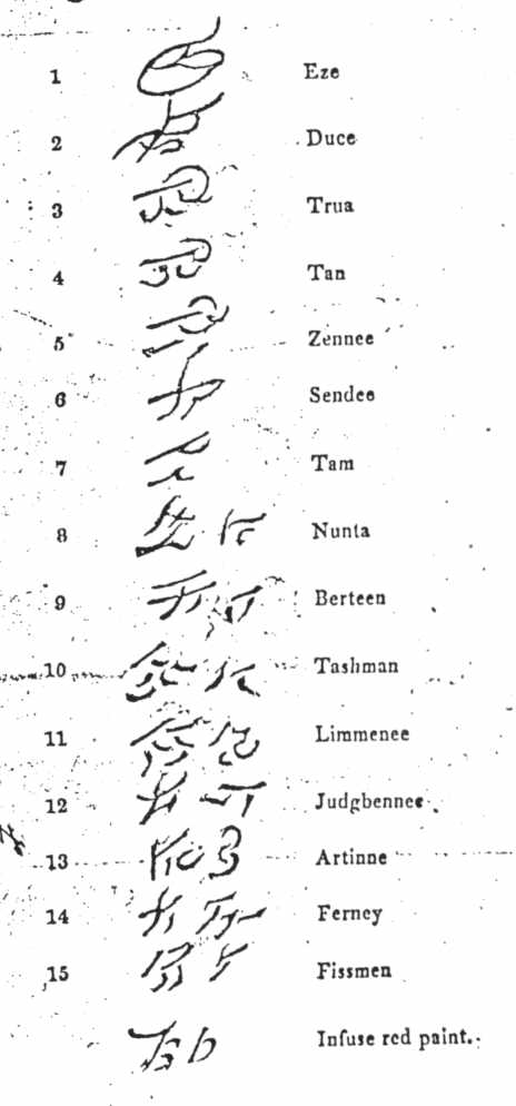 NUMERICAL CHARACTERS, with their Significations, made use of by CARABOO.